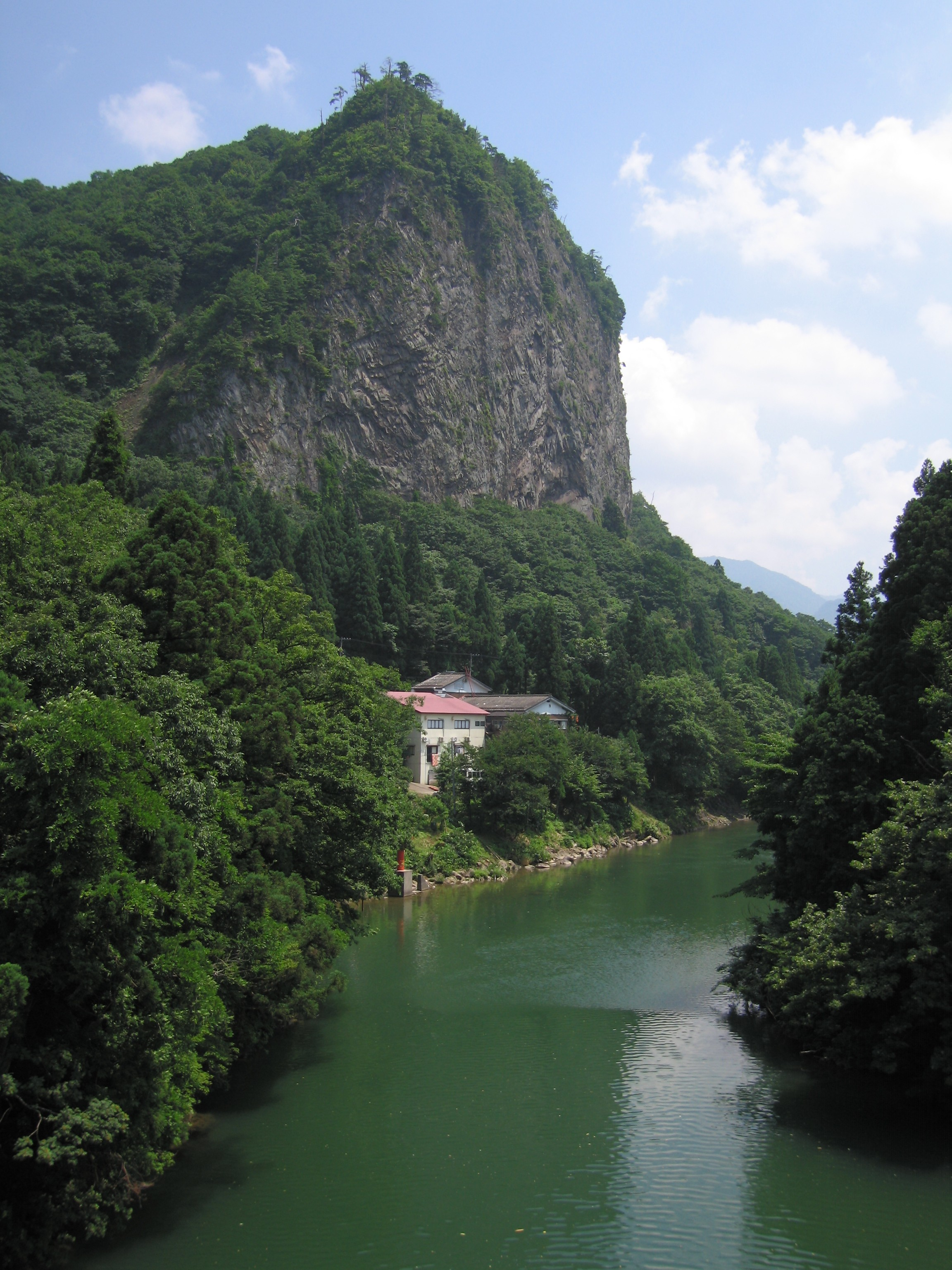 Yagigahana is a sightseeing spot in Sanjo, Niigata Prefecture, Japan.